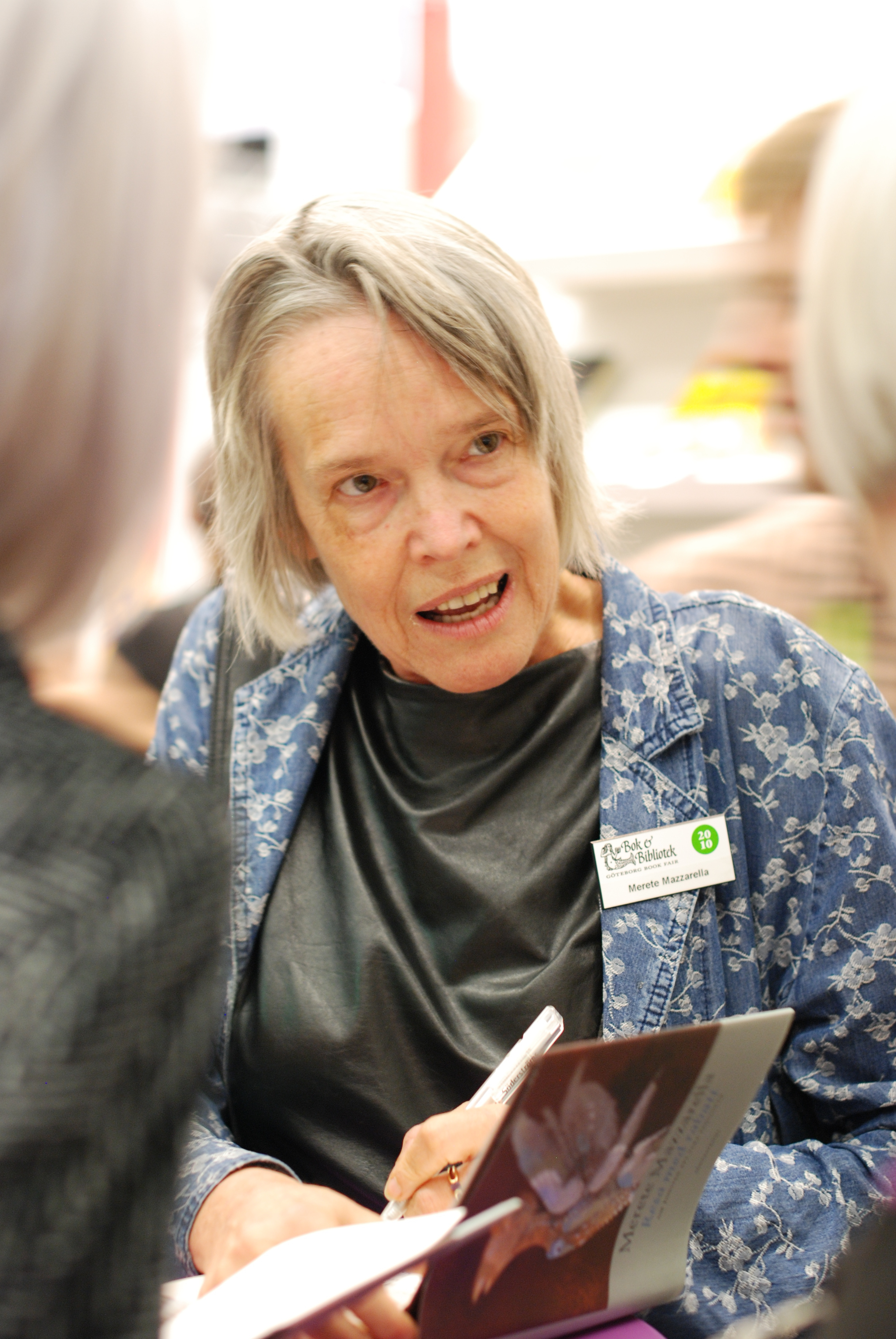 Finnish author Merete Mazzarella signing books at the Göteborg Book Fair 2010